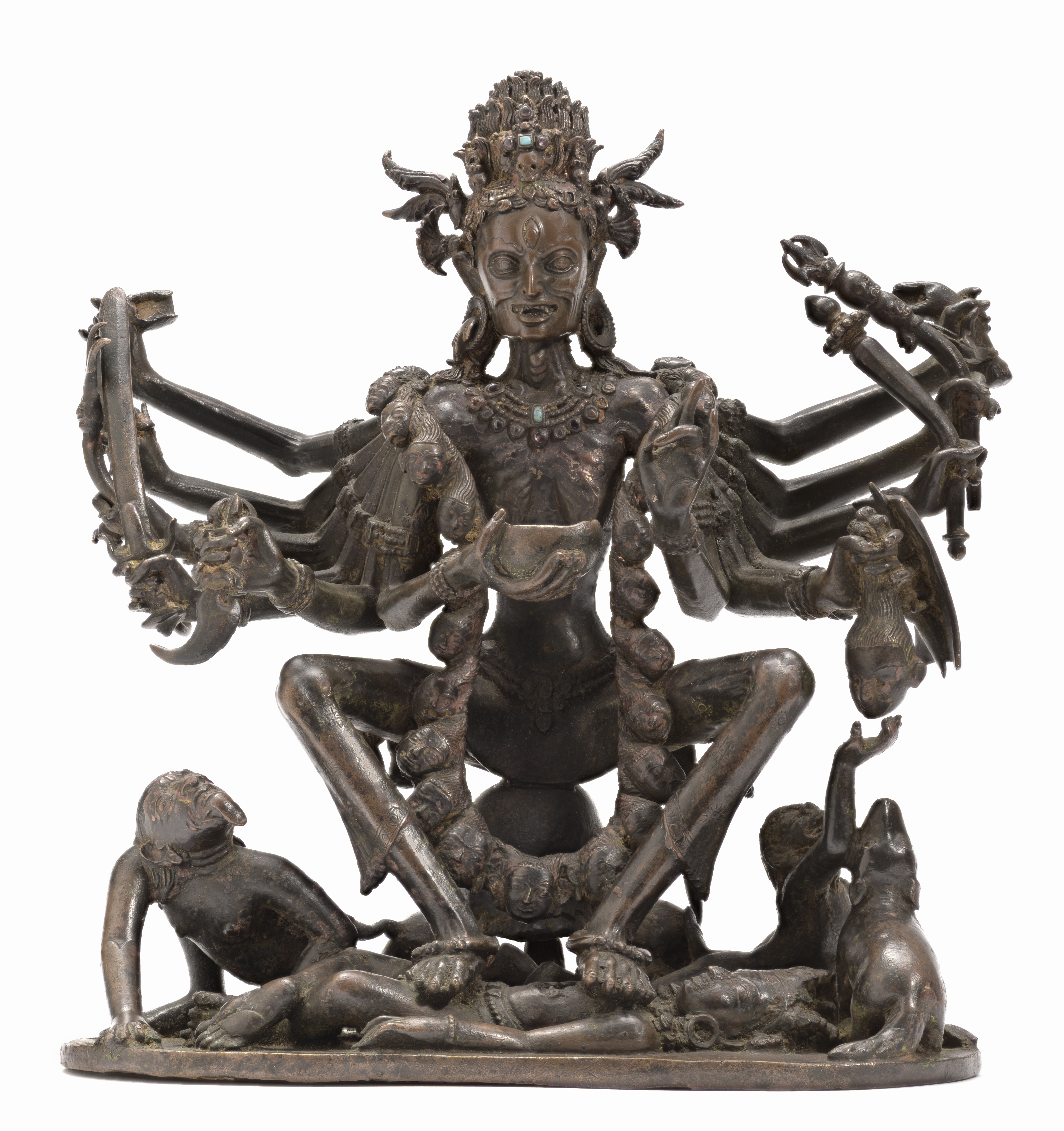 Nepal, 14th century Sculpture Copper with traces of gilding and paint; inlaid with gemstones 8 x 8 1/4 x 4 in. (20.32 x 20.96 x 10.16 cm) Museum Associates Acquisition Fund (M.80.3) South and Southeast Asian Art